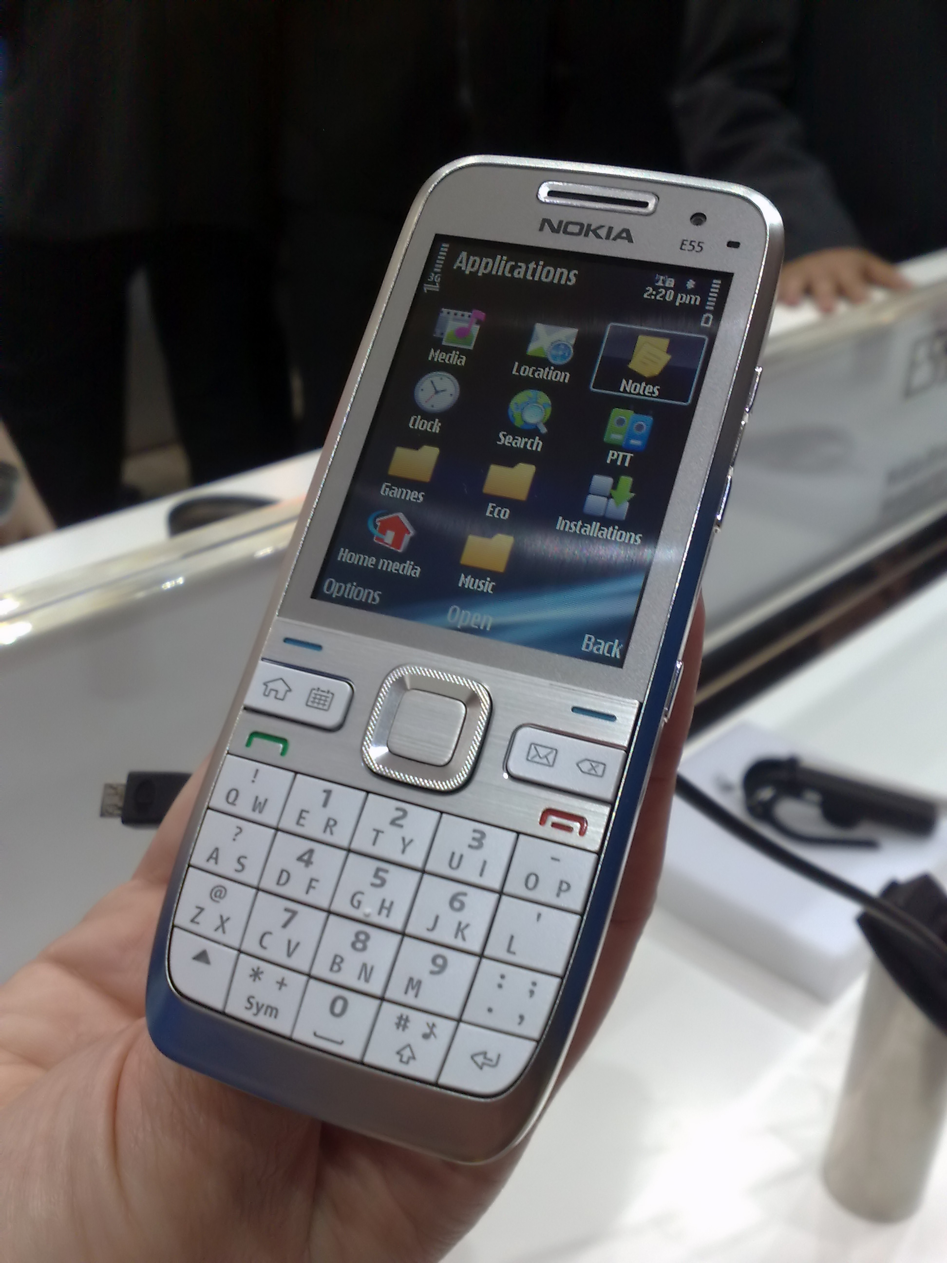 Nokia's fancy new slim E-Series candybar. Complete with aluminium details, half-QWERTY keypad with predictive text, 600MHz CPU and frickin' fast HSPA.